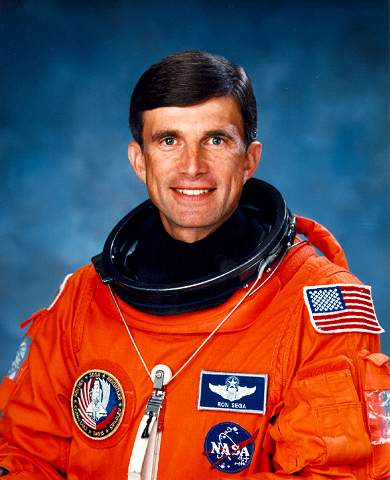 portrait astronaut Ronald Sega